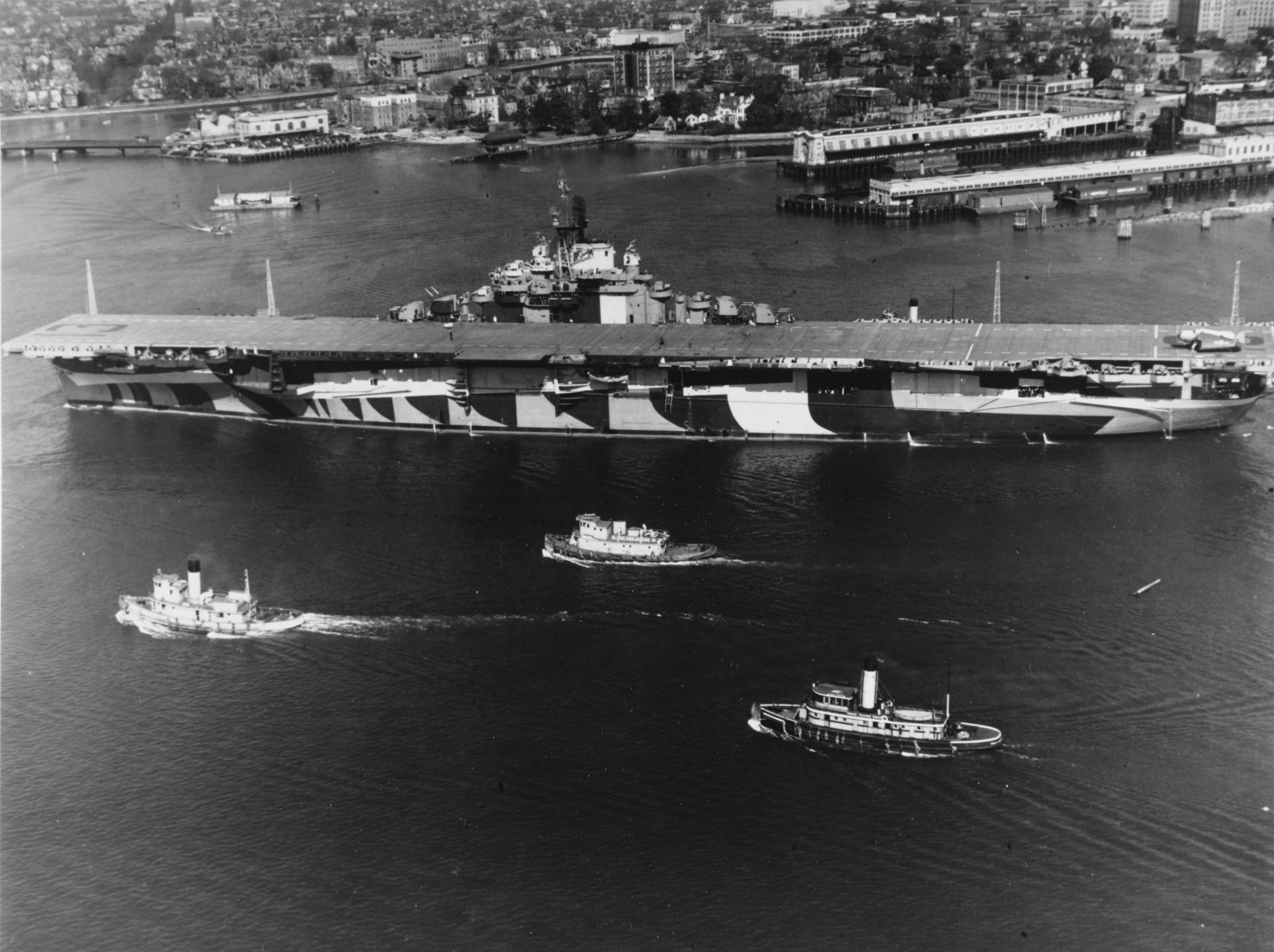 The U.S. Navy aircraft carrier USS Franklin (CV-13) in the Elizabeth River, off Norfolk, Virginia (USA), on 21 February 1944. She is accompanied by three local harbor tugs. Franklin is painted in camouflage Measure 32, Design 6a. This paint scheme was changed a few months later, on the port side only, to Measure 32, Design 3a. The ship's starboard side retained the Design 6a pattern.